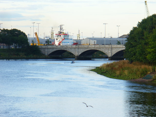 The Dee by Victoria Bridge This tidal stretch of the Dee is used by several rowing clubs. In the background is the 5-arched Victoria Bridge which was built in 1881 to connect Aberdeen with Torry.